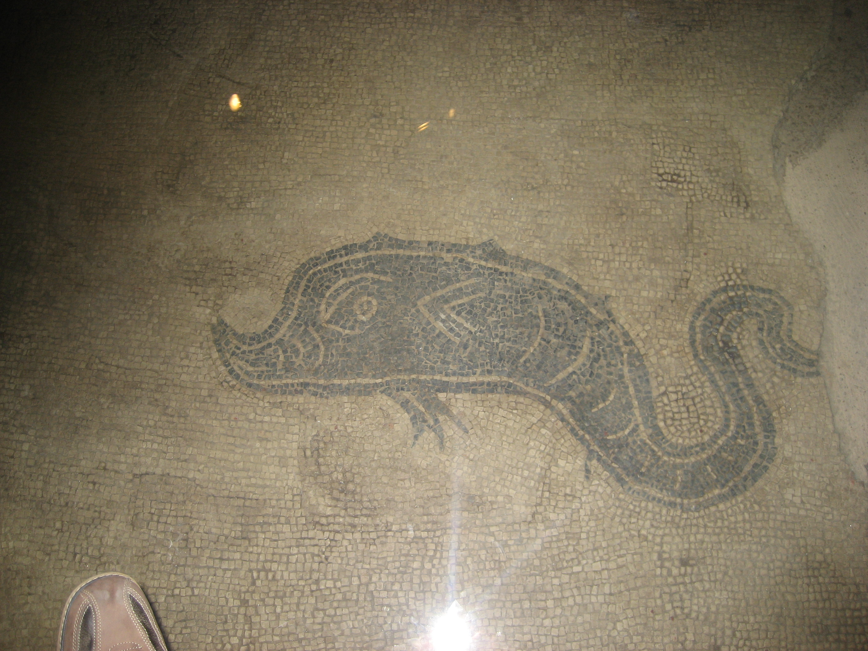 Roman mosaic in the Coro (presbytery) of the Cathedral of Atri. It is part of the archaeological rests of the Roman thermal baths, on whose rests were built the church.